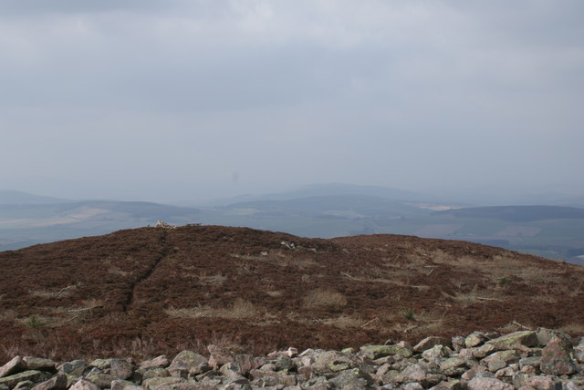 Cairn-mon-earn Photograph taken from the trig pillar looking over to the cairn and bench.